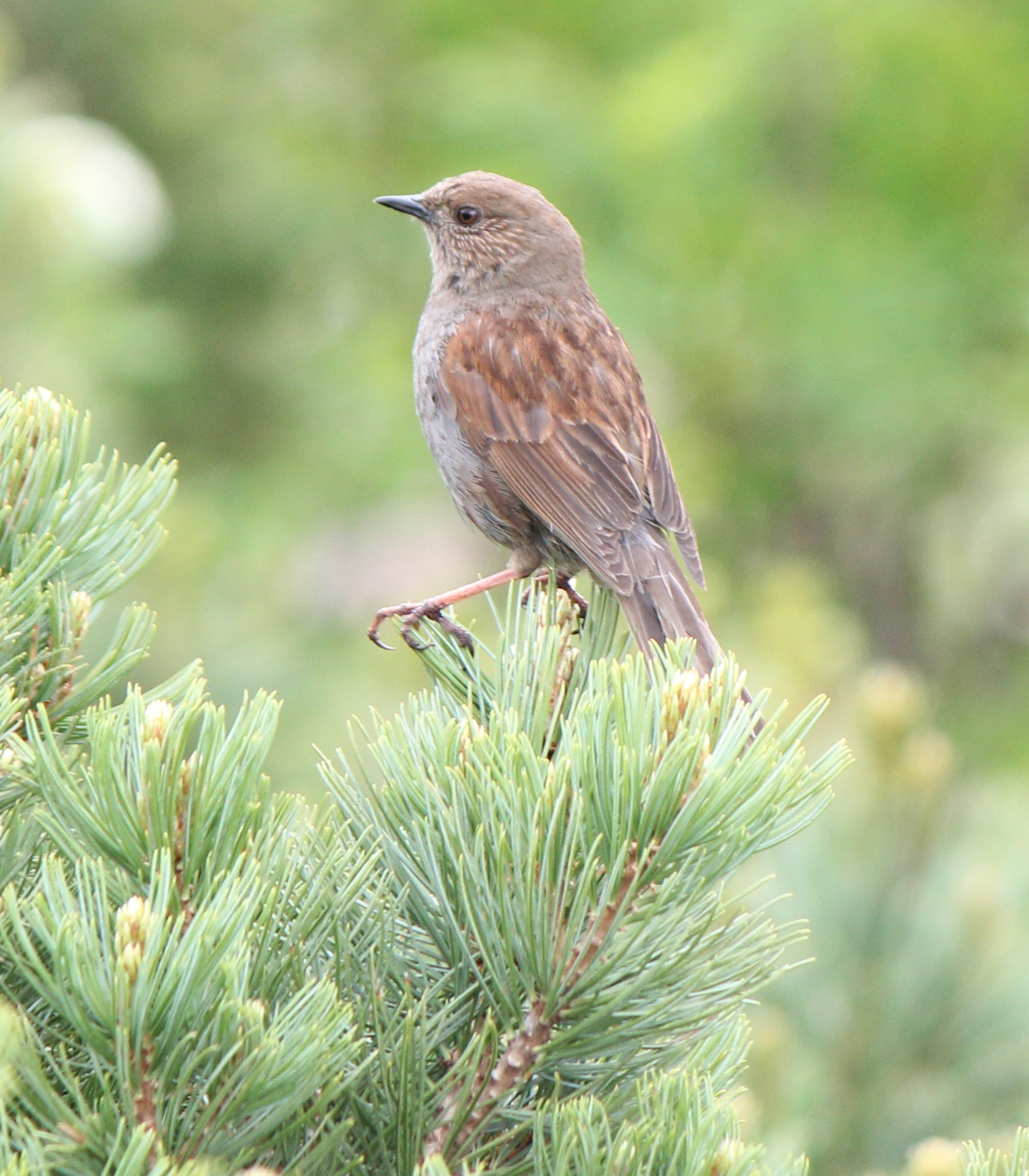 Prunella rubida (Japanese accentor), in Mount Norikura, Takayama, Gifu prefecture, Japan.